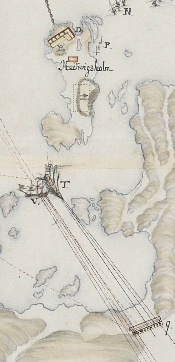 Detail from the battle of Marstrand, Sweden in 1719. The galley Prince Fredrik of Hessen (T) and gunbarge Ge på (V) is defending the outwork Hedvigsholm against danish attack. (N) is the scuttled Swedish frigate Halmstad, and (P) is a scuttled Swedish fireship.